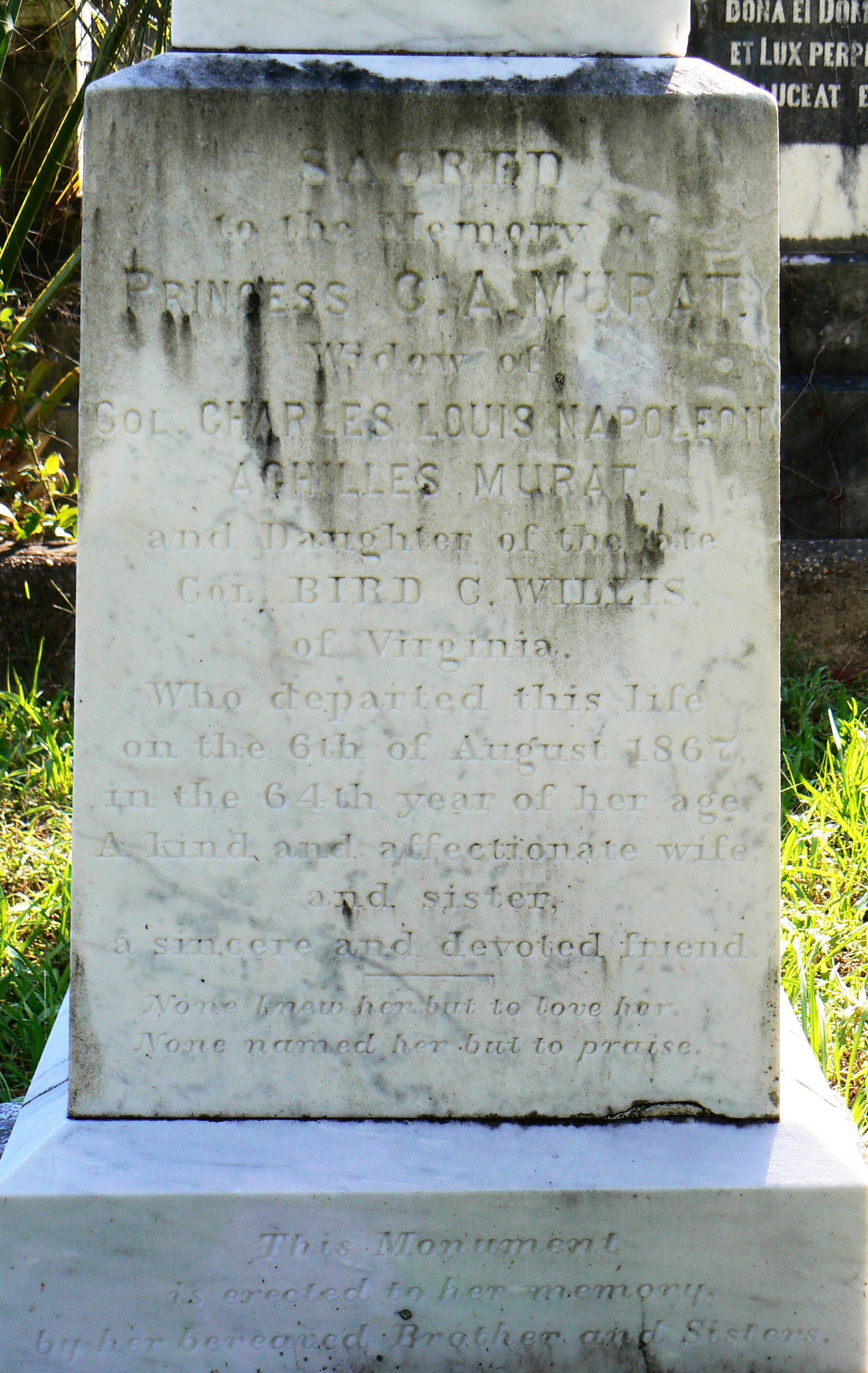 Grave of Catherine Willis Gray Murat (1803-1867), at old Episcopal Cemetery, Tallahassee FL